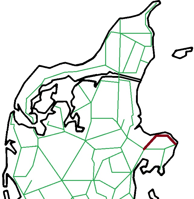 Map of railways in Northern Jutland in Denmark with the private railway Ryomgård-Gjerrild-Grenaa Jernbane in brown.